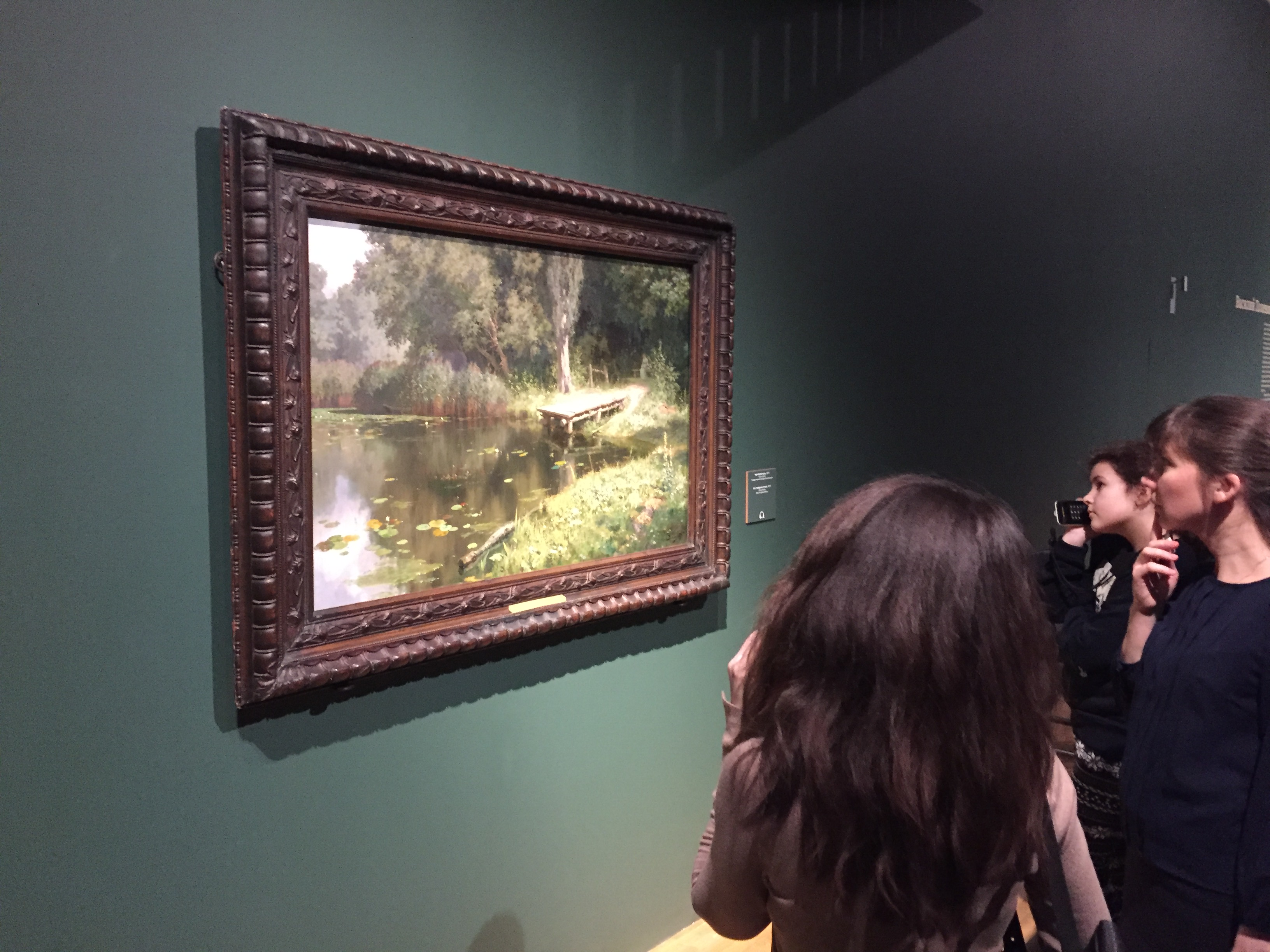 "An overgrown pond" (painting by Vasily Polenov, 1879) at the Polenov exhibition in New Tretyakov gallery